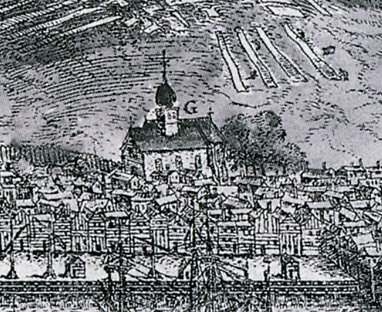 Scholeusstikket made in 1580, cropped to show Martinskirken (St Martins church).